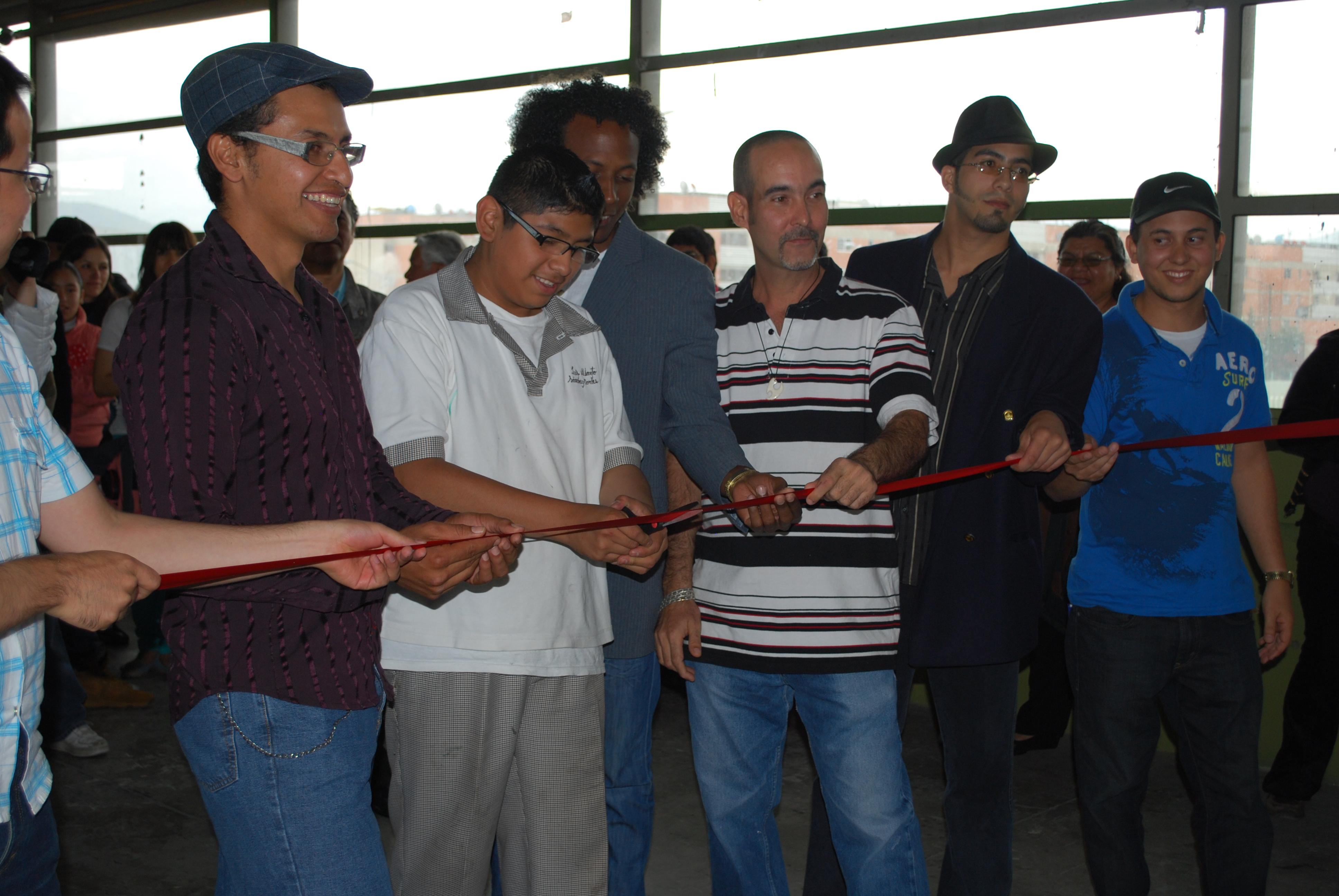 Ribbon cutting ceremony at the openining of the Nuevo Realismo Latinoamericano exhibit at the Fábrica de Artes y Oficios de Oriente (FARO) in Iztapalapa, Mexico City